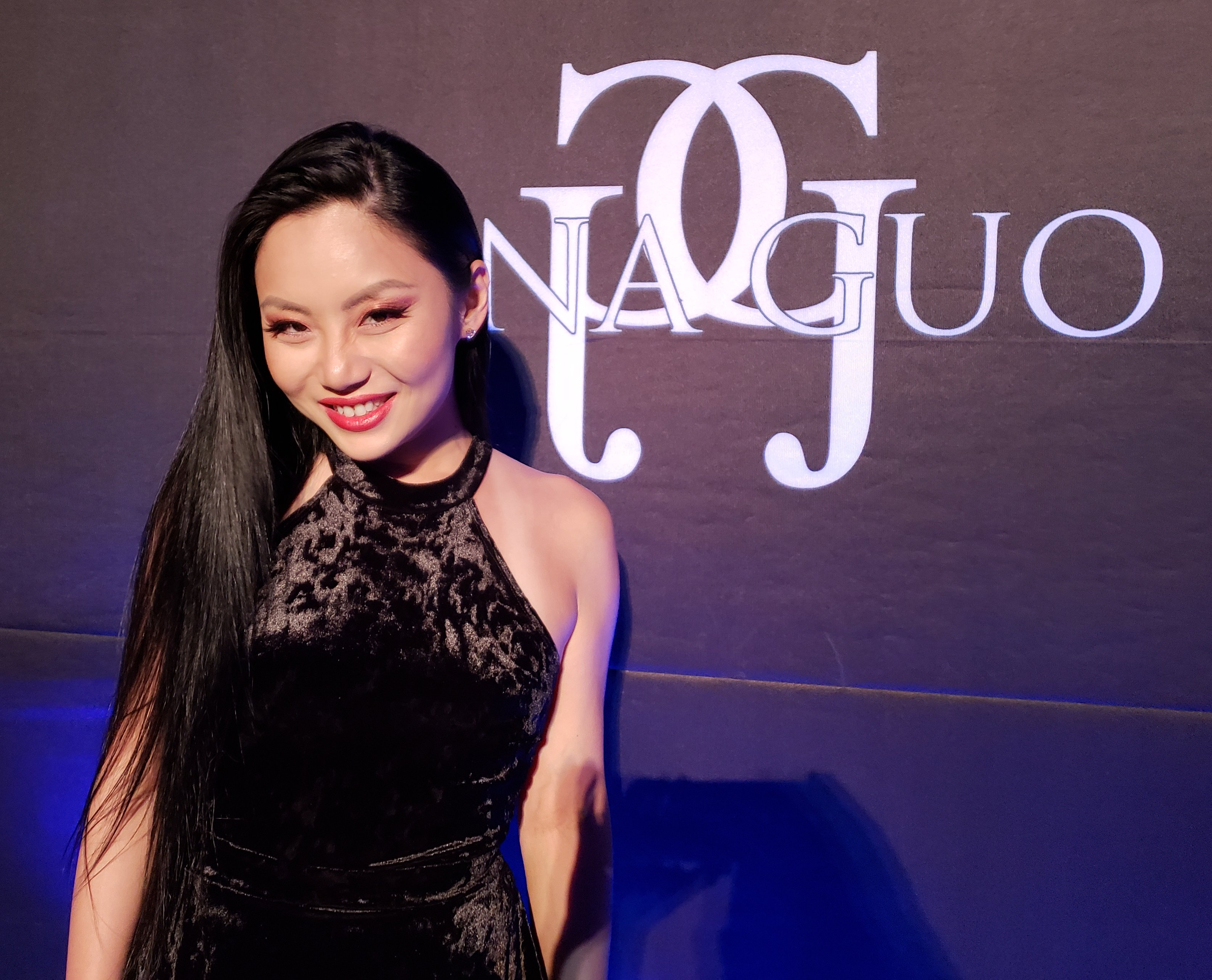 Cellist Tina Guo at a rehearsal in San Francisco.